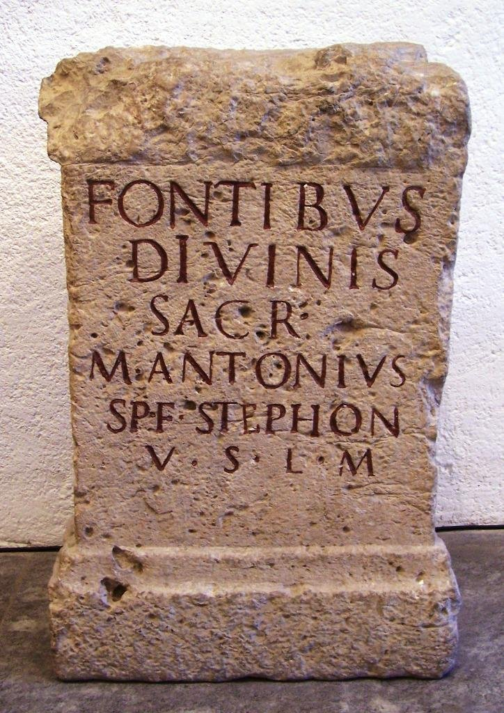 Altar kept in the wall of the church of San Michele of Berzo, then owned by Mr. Simoni of Bienno, now in the Archaeological Museum in Bergamo (inv. 973). Origin: Berzo Inferiore, Val Camonica.